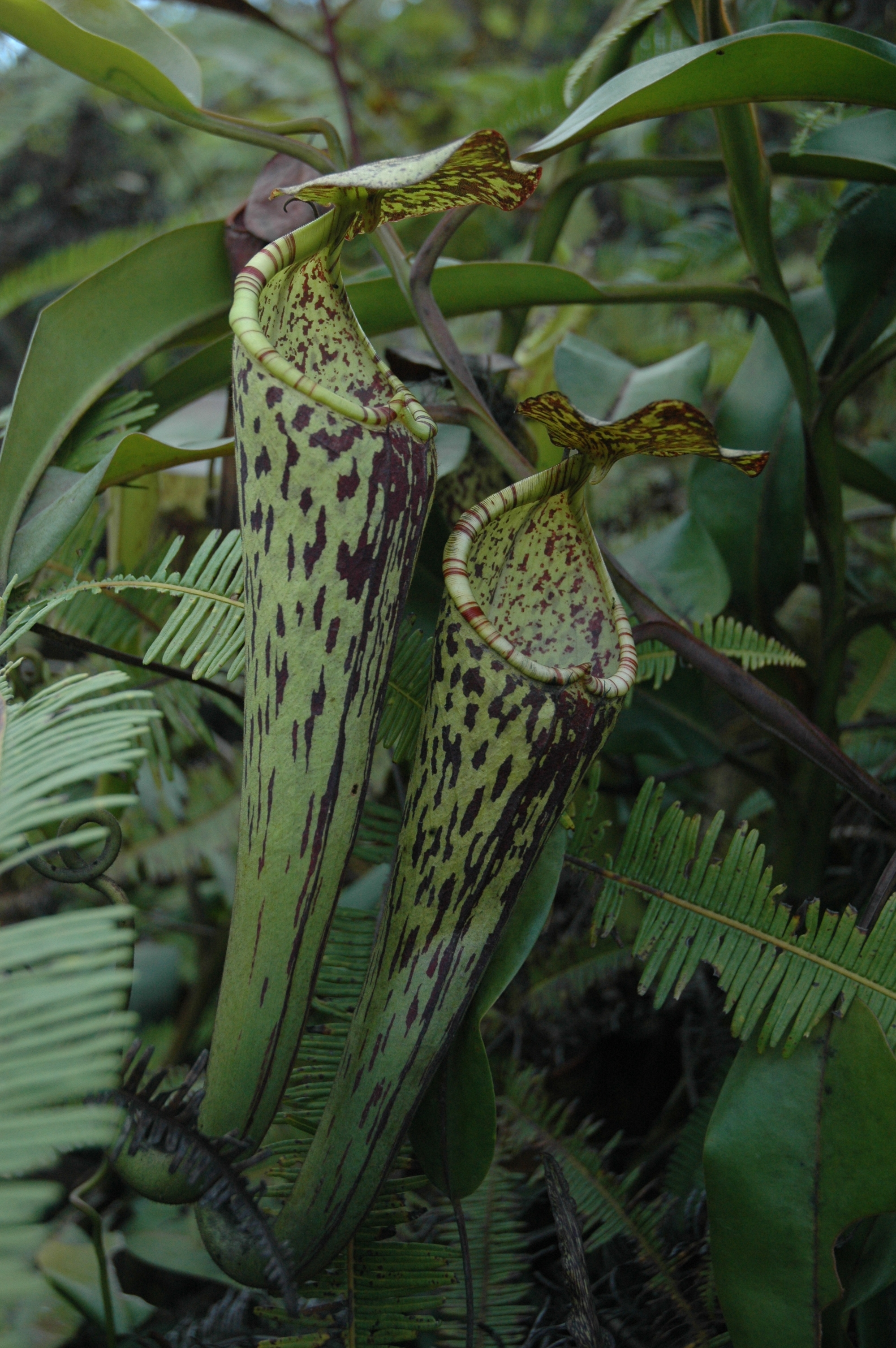 Nepenthes stenophylla on a logging road going to Gunung Murud by Jeremiah Harris